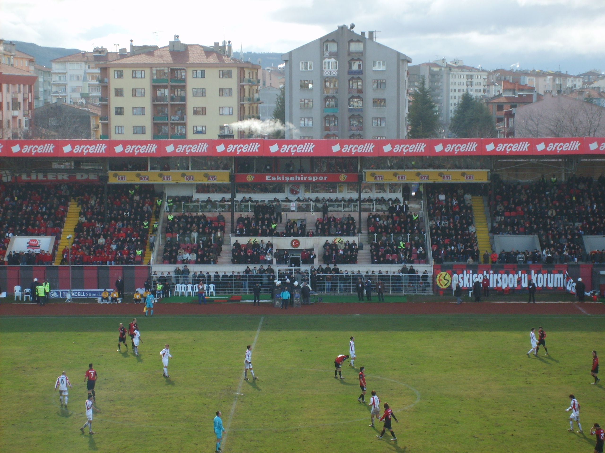 Eskişehirspor-Gençlerbirliği match in 14 February 2009.